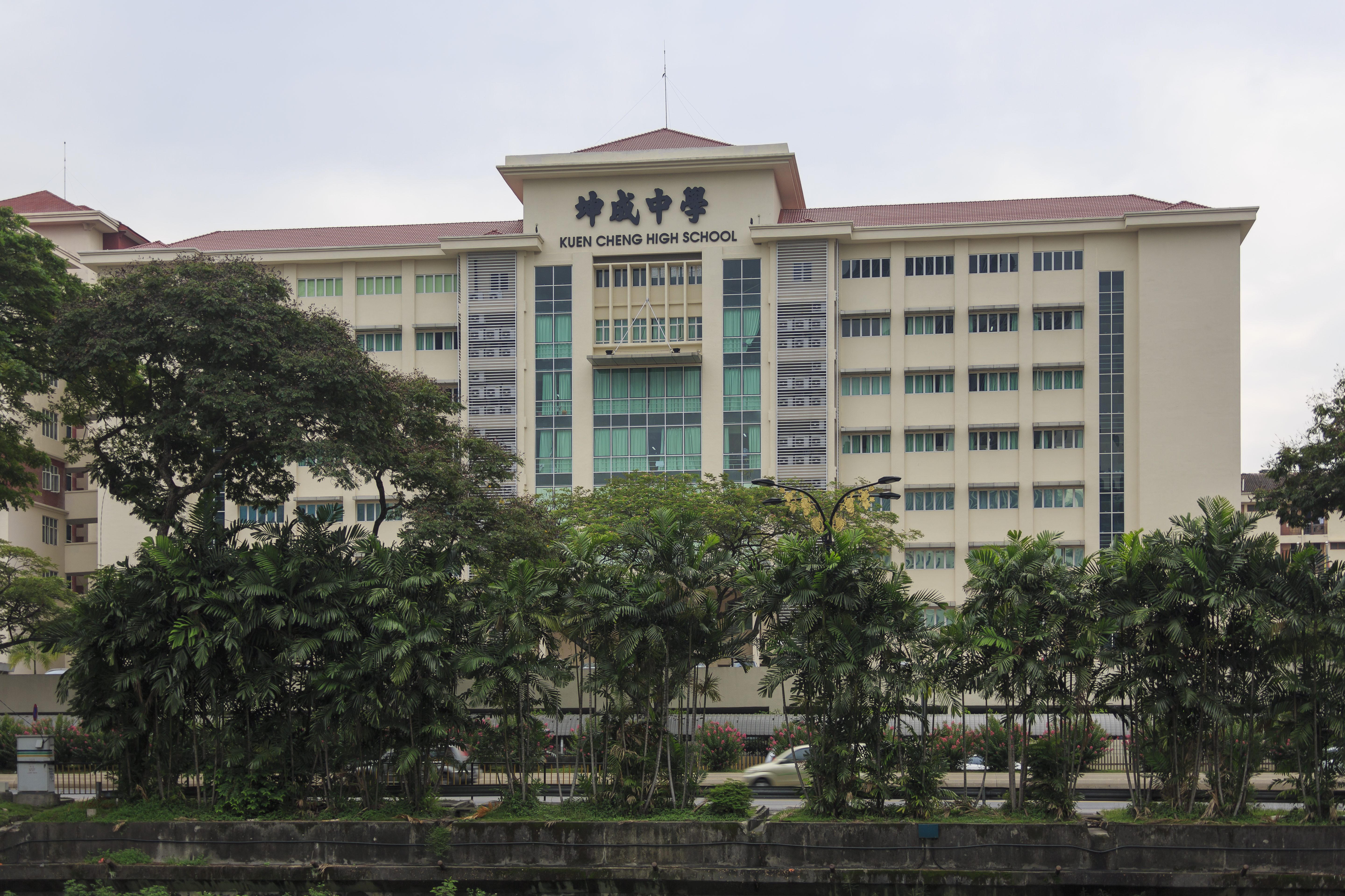 Kuala Lumpur, Malaysia: Kuen Cheng High School (坤成中学)